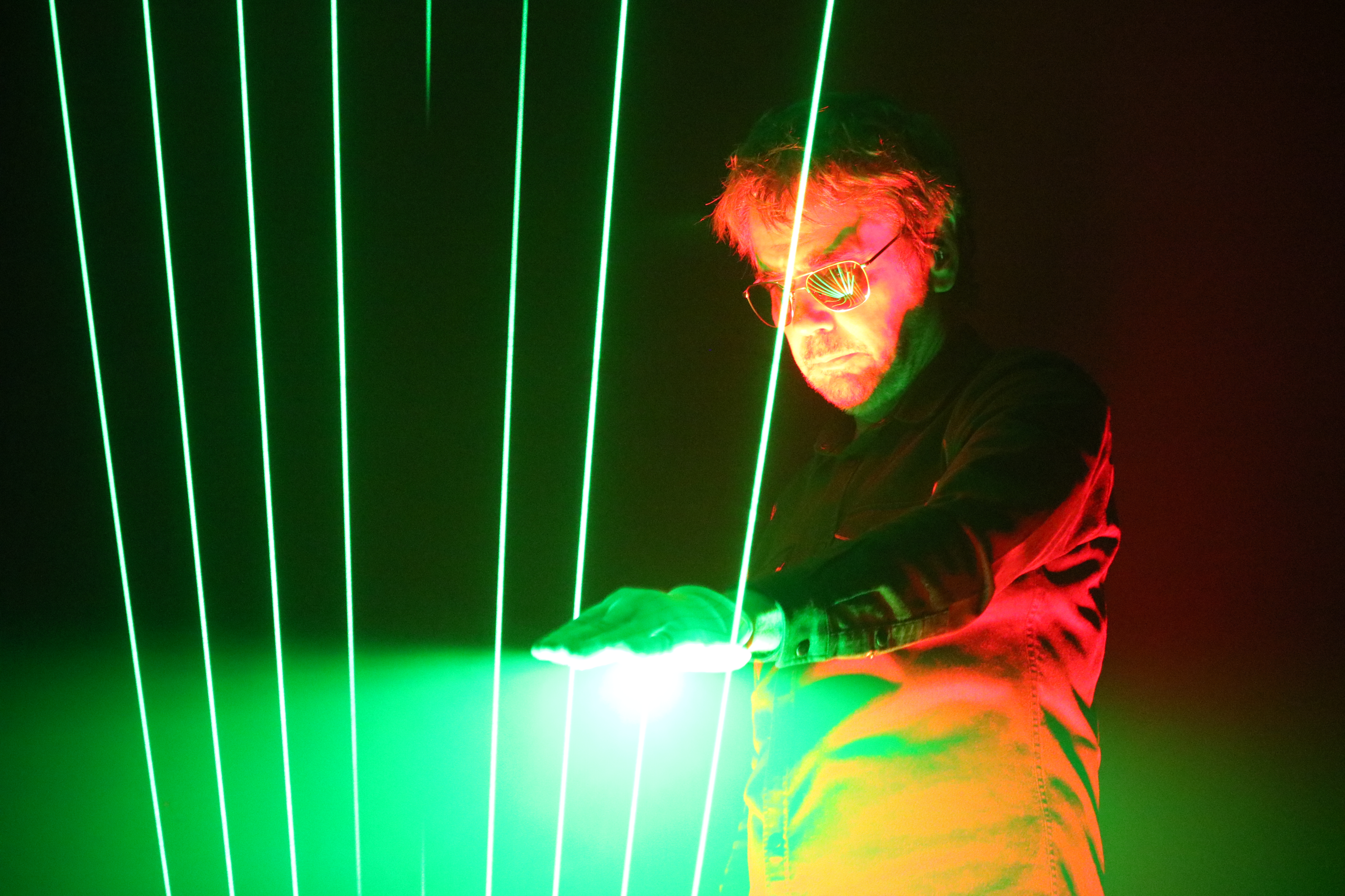 Jean-Michel Jarre playing on laserharp at a concert in Bratislava, 2016.